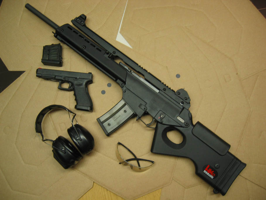 Sport weapons (Glock 17, HK SL8, protective gear)